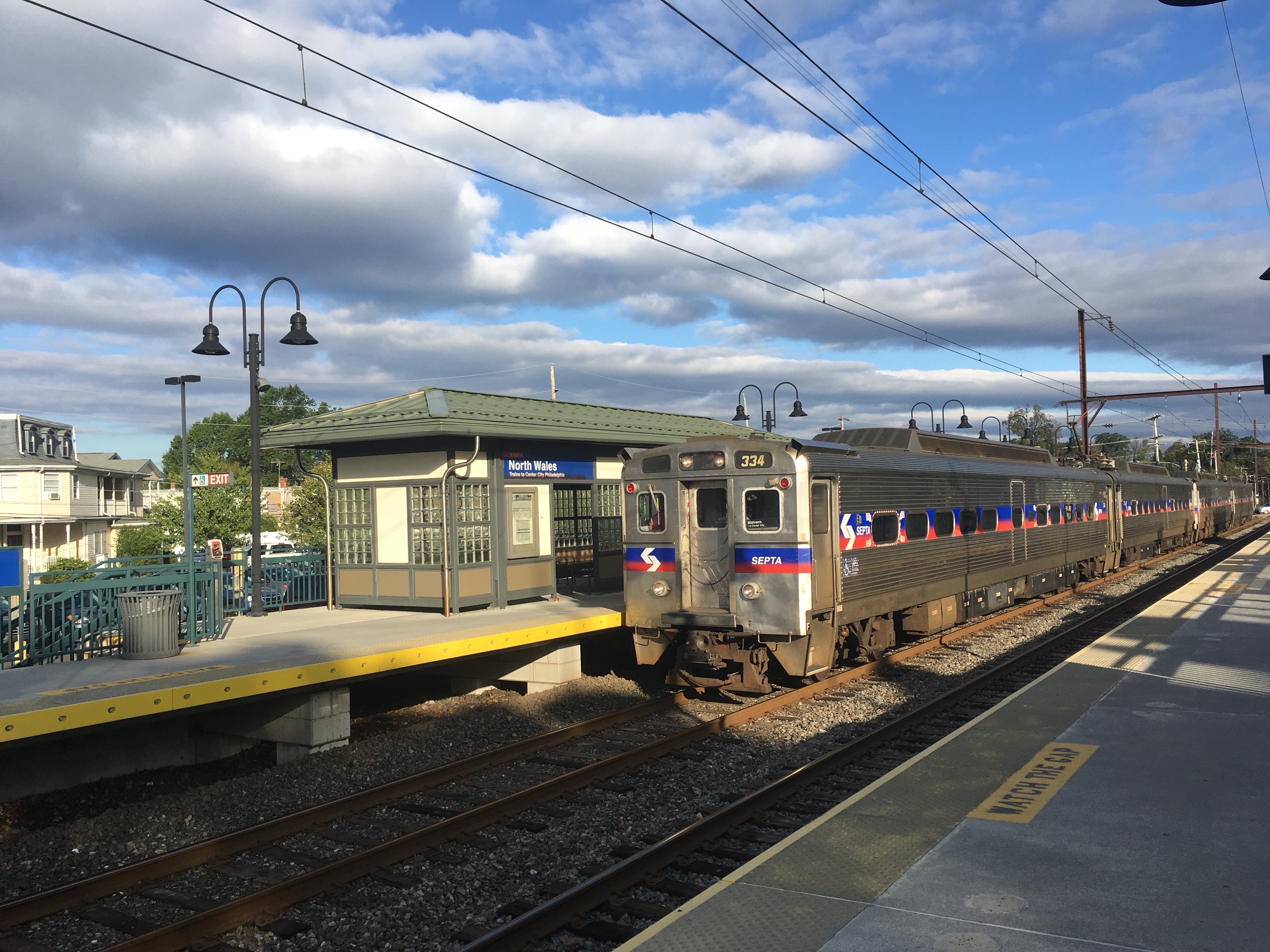 SEPTA Silverliner IV 334 on an inbound Lansdale/Doylestown Line train at North Wales station in North Wales, Pennsylvania